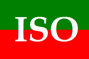 Flag of the Pakistani Shia student movement Imamia Student Organisation